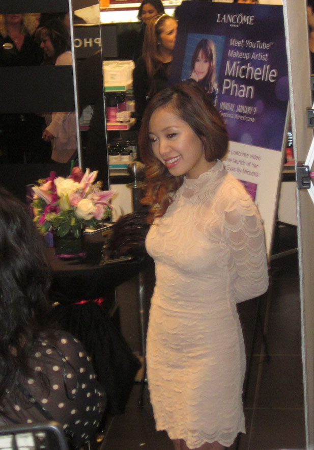 Michelle Phan at Sephora, Glendale, California Photo by Kastle Waserman for Stiletto City